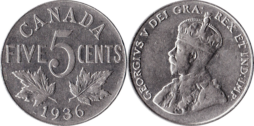 Coin from Canada